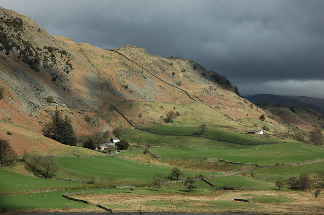 View across Little Langdale to the Bield and Bield Crag